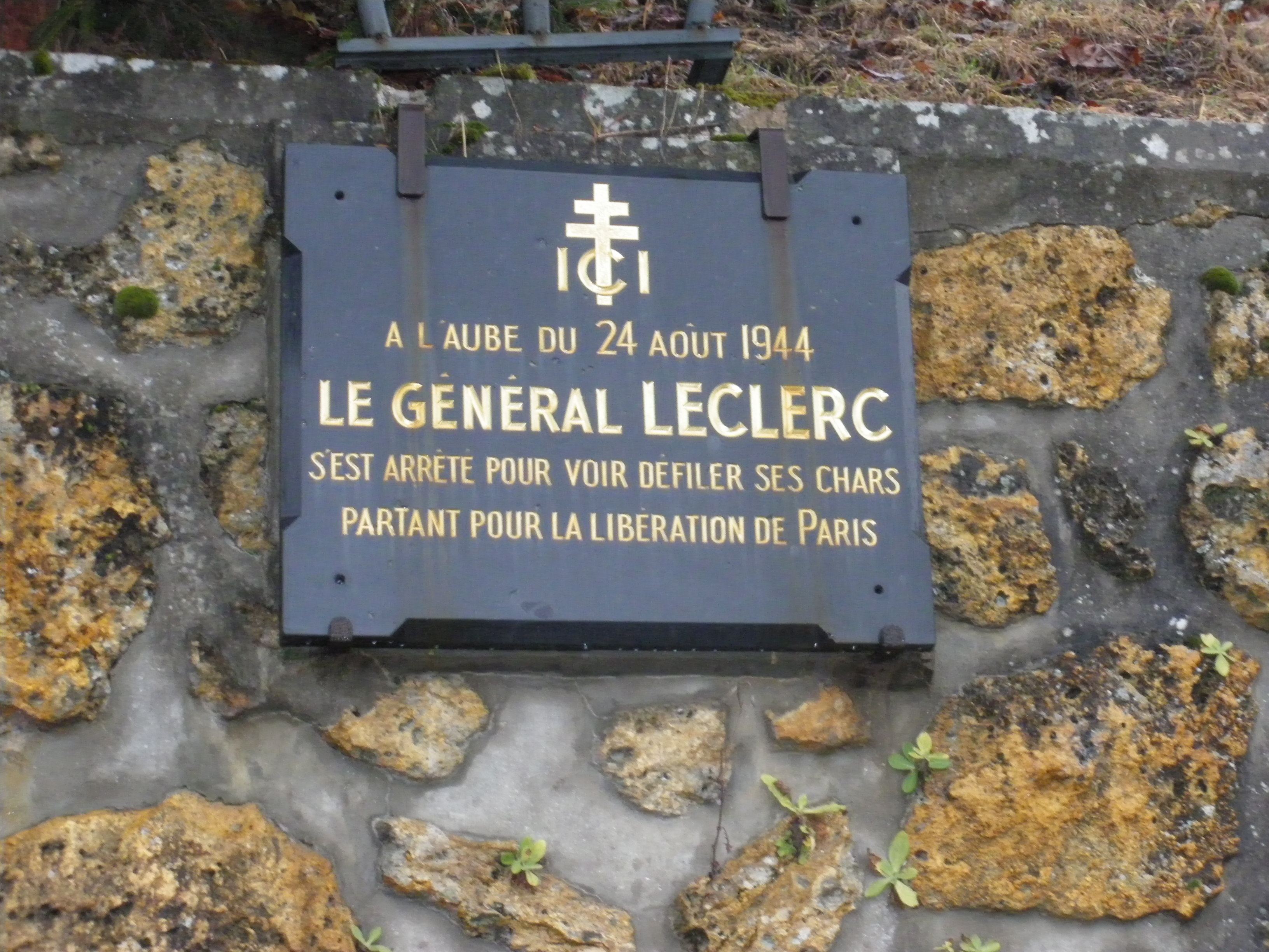 General Leclerc Memorial, Forges les Bains, Essonne, France